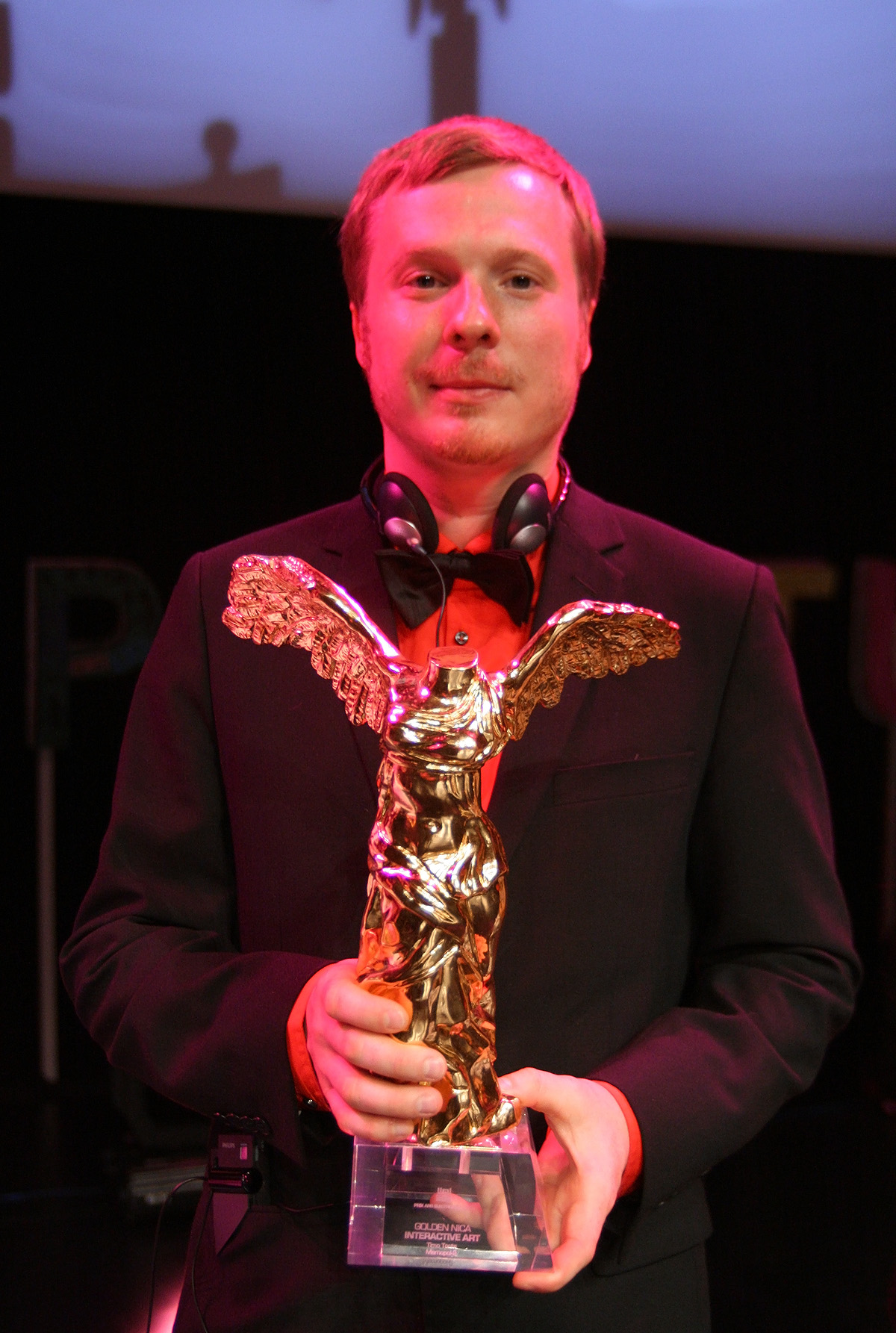 Timo Toots with his Golden Nica of the Prix Ars Electronica 2012 in the category Interactive Art for 'Memopol-2' (Brucknerhaus in Linz, Upper Austria).